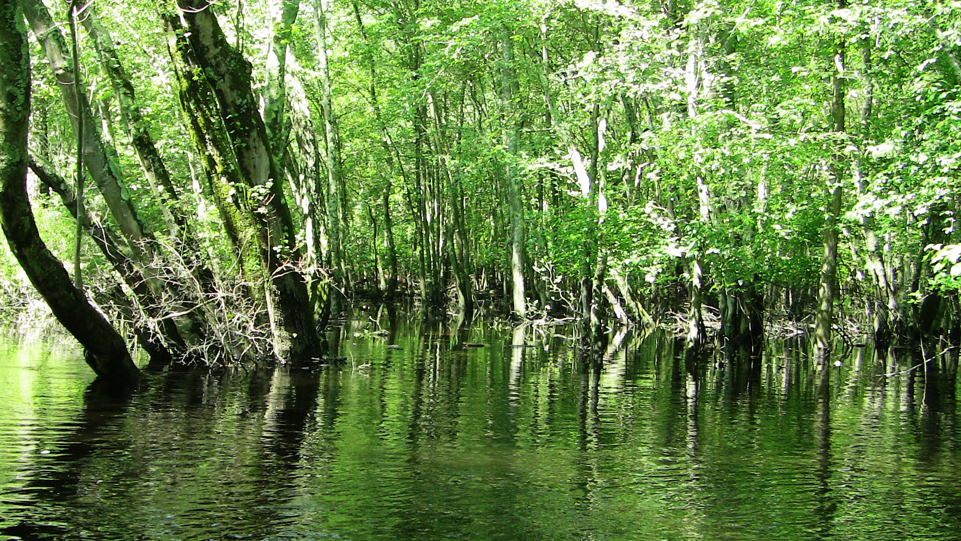 picture shows the "shore" of the Great Egg Harbor River, highlighting the trees growing up through the water and the green foliage.